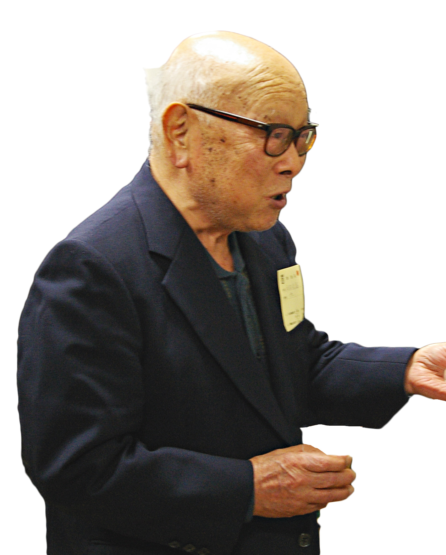 taken on November 10, 2007, at the Japanese Geomorphological Union meeting, University of Tsukuba